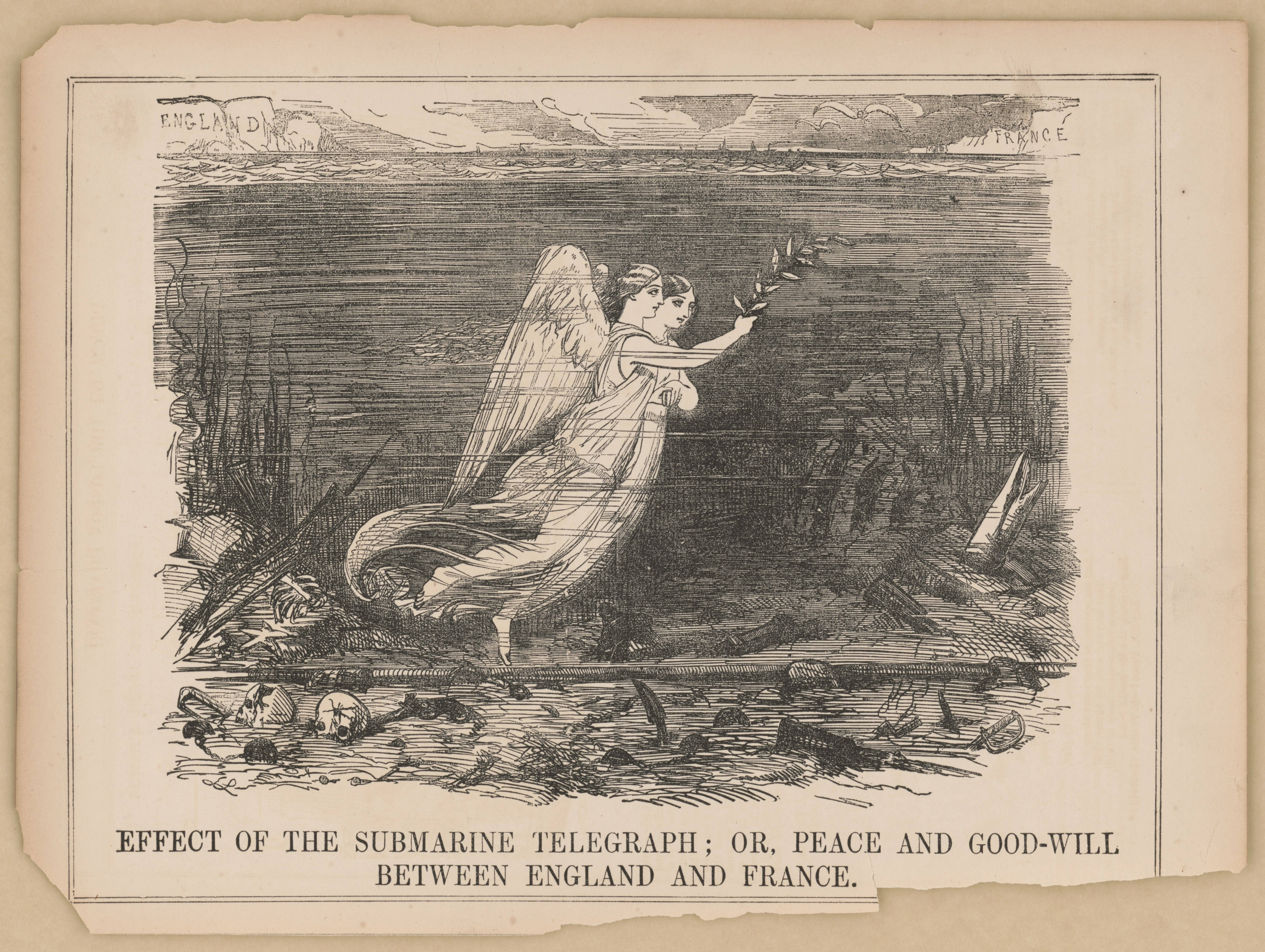 Title: Effect of the submarine telegraph; or peace and good-will between England and France Abstract/medium: 1 print : wood engraving ; sheet 20.7 x 27.6 cm.